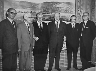 This photograph is of several USDA officials, both active and retired, taken in 1961 at a lecture series honoring the USDA Centennial. On the far left is Joseph M. Robertson, then Assistant Secretary for Administration. Next to him is M. L. Wilson, Assistant Secretary, and later Under Secretary of Agriculture, 1934-1940, and Director of Extension Work, 1940-1953. Third is Henry A. Wallace, Secretary of Agriculture from 1933 to 1941, and Vice President from 1941 to 1945. To his right is Charles Murphy, Under Secretary of Agriculture, 1961-1965. Second from the right is Paul Appleby, who was Assistant to Secretary Wallace, and later Under Secretary, 1940-1944. On the far right is Frank J. Welch, Assistant Secretary for Federal-State Relations.